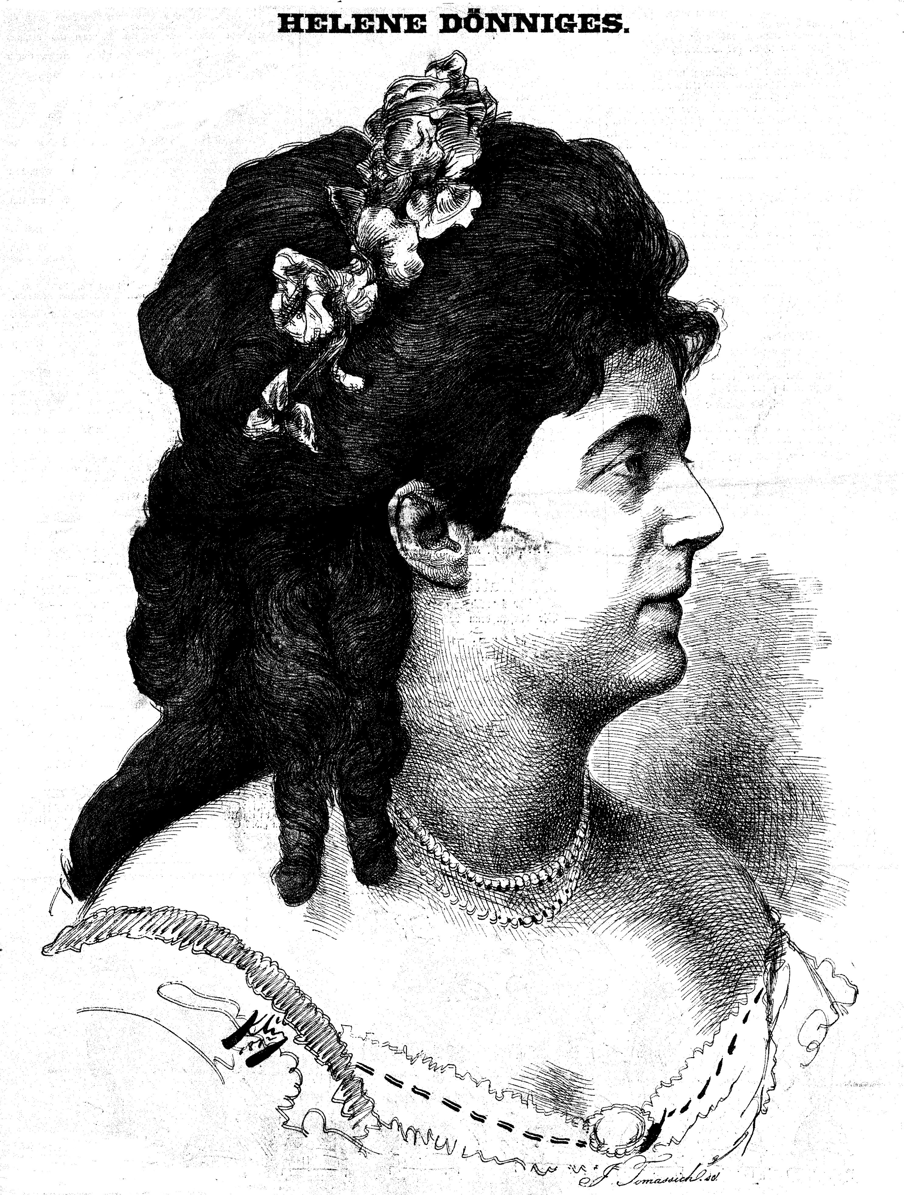 Portrait of Helene von Dönniges (1843-1911), German writer.